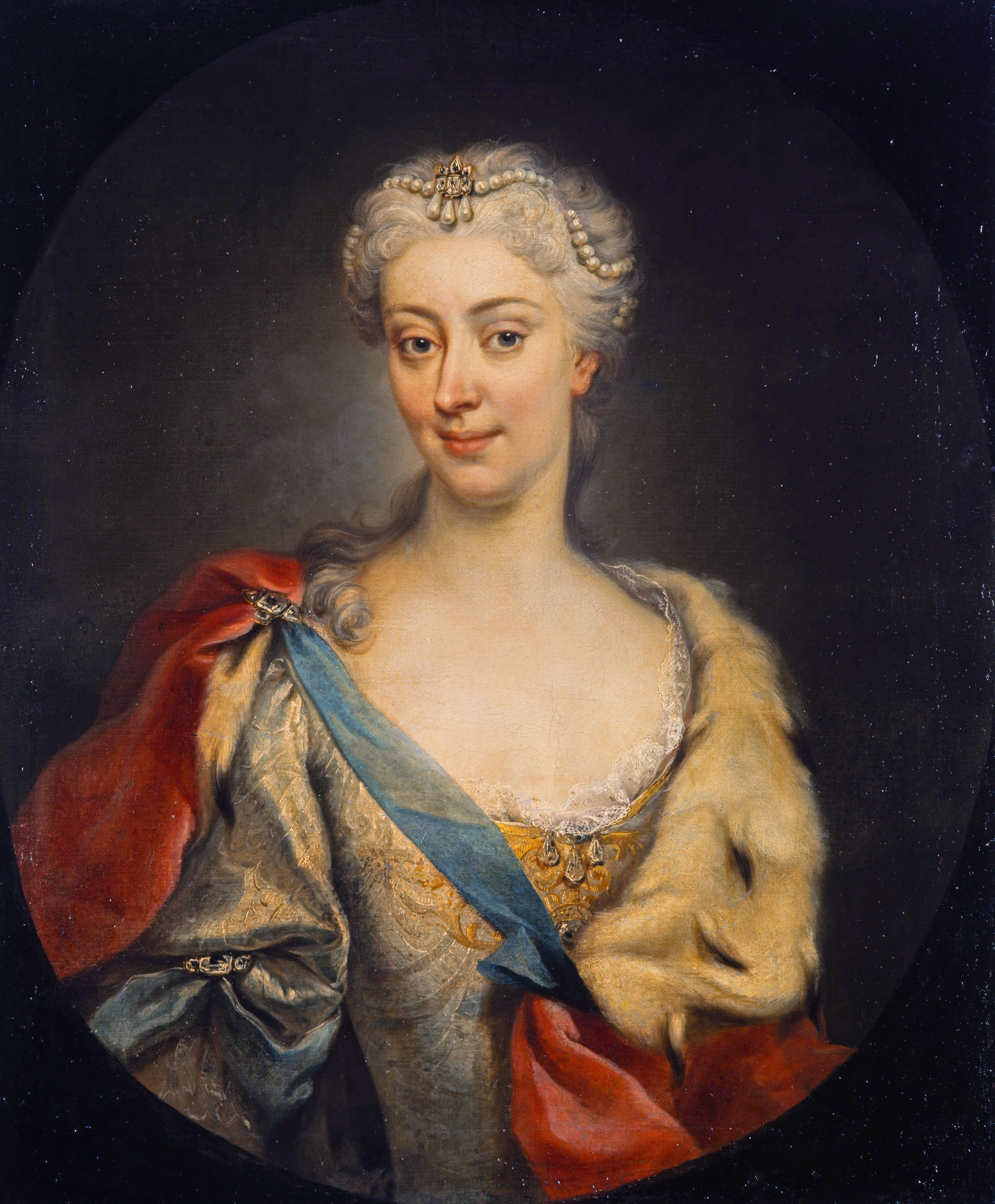 E. Gill was probably an English painter living in Rome. In 1725 the Swedish painter Martin van Meytens, later the most important portraitist in the court of Maria Theresa of Austria, painted two portraits of James Francis Edward Stuart and his wife Maria Clementina Sobieska. Between 1727 E. Gill was commissioned to produce two copies of this portraits and later he produced sixteen more copies, until March 1728, when his work was considered not good enough. This version of Maria Clementina's portrait is actually quite good, so maybe it could be from the atelier of van Meytens and not from E. Gill. It's the official portrait of the Queen, used for the mosaic portrait of her tomb too.